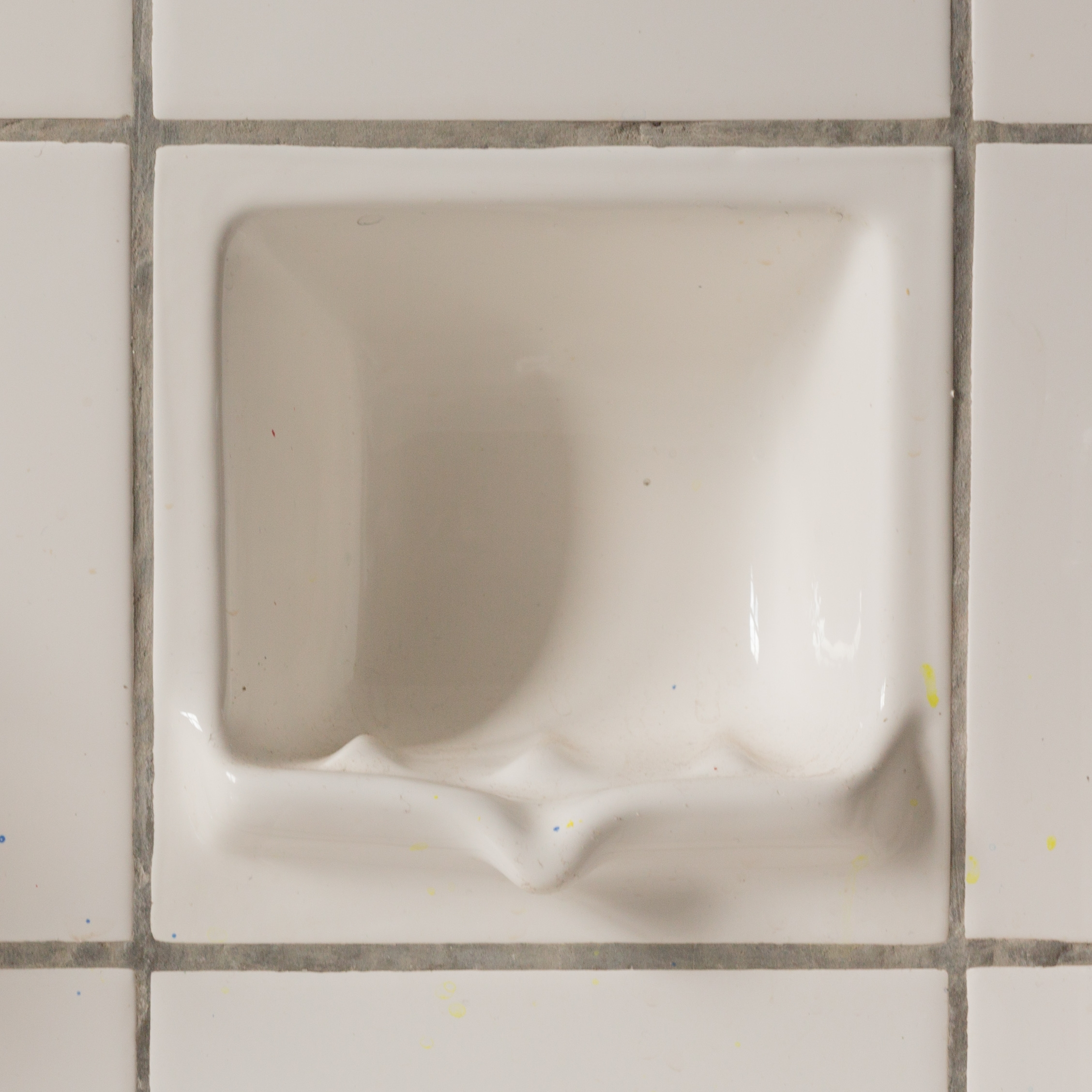 Soap dish in Læssøesgade's School